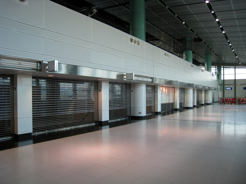 Lok Ma Chau Station Level 3 vacant shops